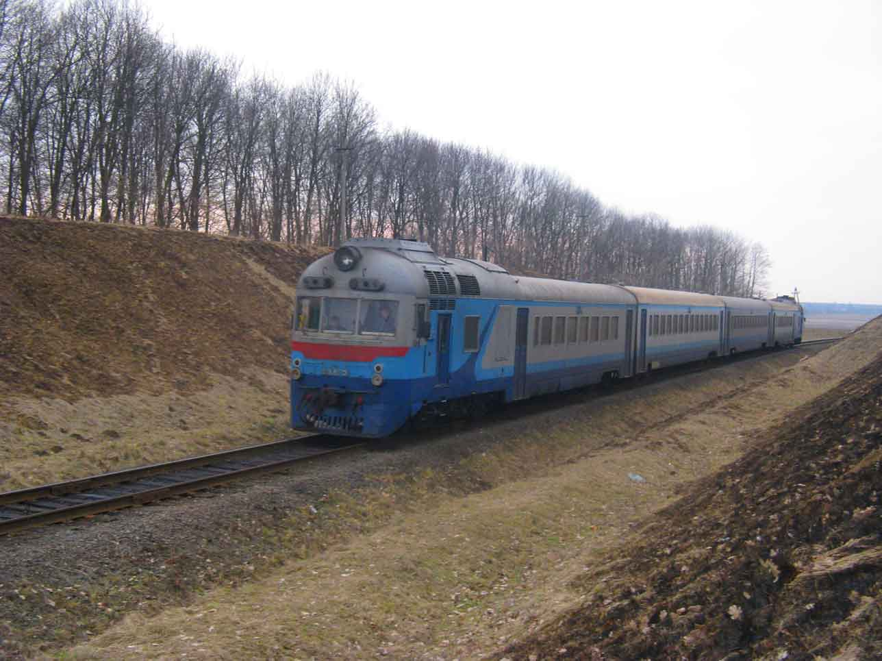 Train near Maryanivka, Horokhiv rajon, Volyn oblast